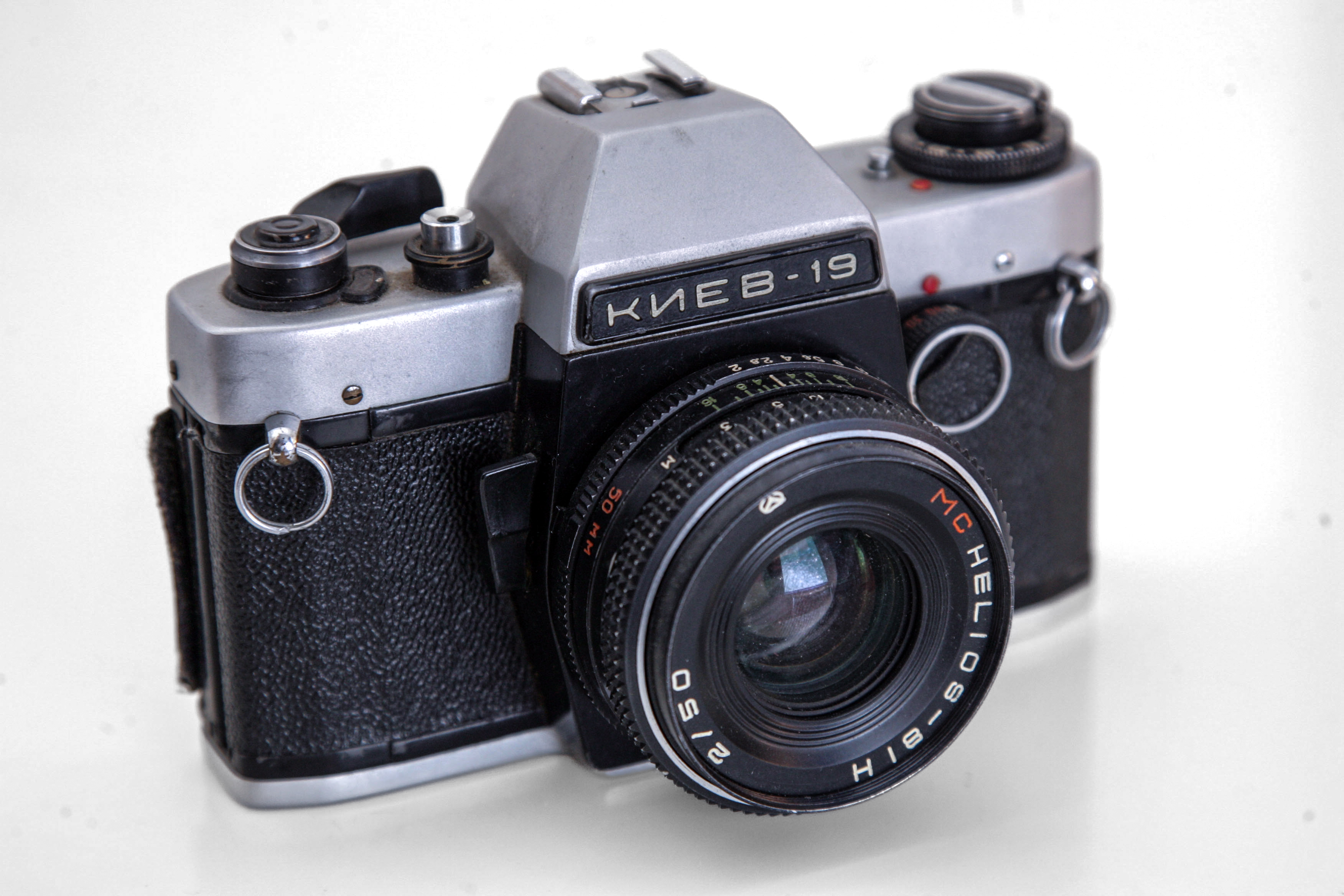 Soviet 35-mm SLR camera 'Kiev-19'. Front view.